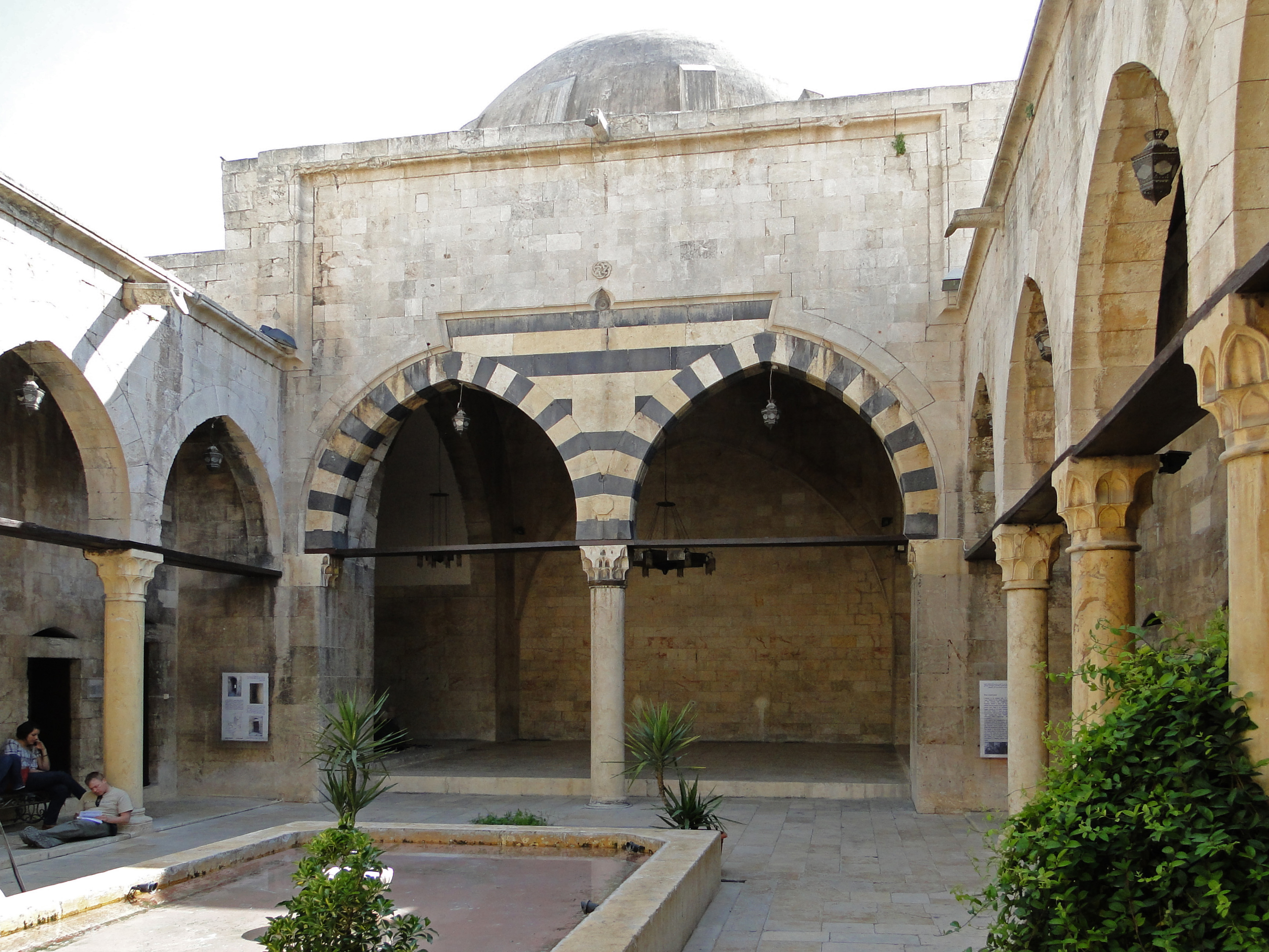 Courtyard of Bimaristan Argun, Aleppo, Syria